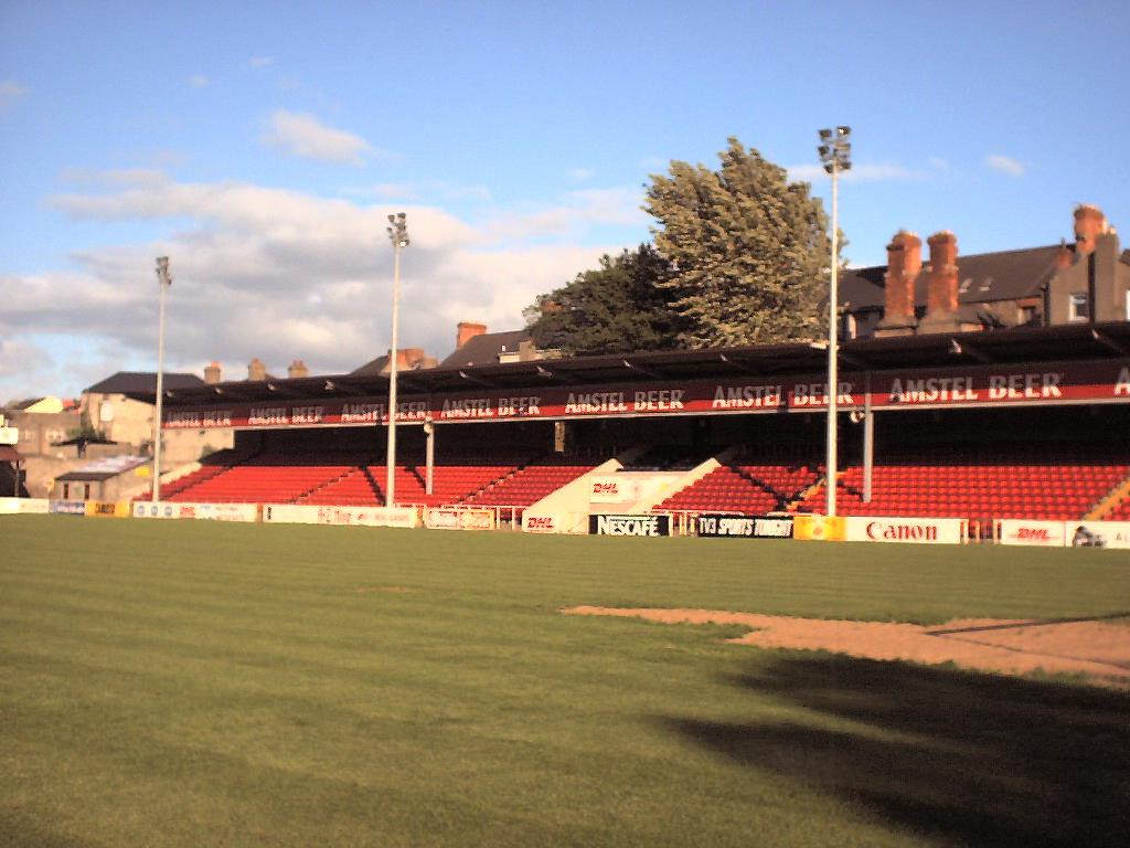 Main Stand Richmond Park, Inchicore, Dublin